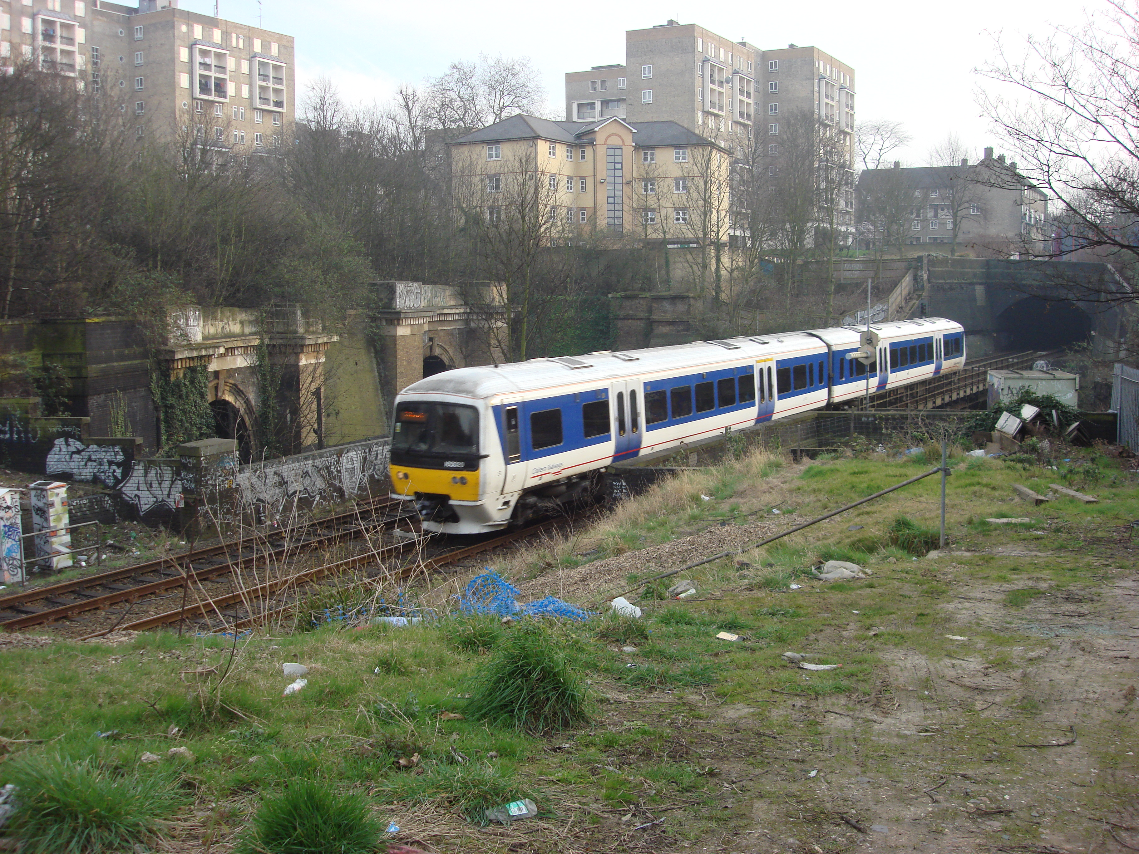 165020 crossing the WCML near South Hampstead, London, UK